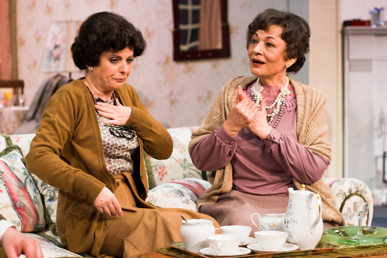 "A Murder is Announced" by Agatha Christie, dramaturg Svetislav Jovanov; directed by Ksenija Krnajski; Drama of the Serbian National Theatre, Novi Sad, 2011/12;Tijana Maksimović, Mirjana Gardinovački Srpski (latinica): "Najavljeno ubistvo" Agate Kristi, dramaturg Svetislav Jovanov; režija Ksenija Krnajski, Drama Srpskog narodnog pozorišta, Novi Sad, 2011/12; Tijana Maksimović, Mirjana Gardinovački Српски (ћирилица): "Најављено убиство" Агате Кристи, драматург Светислав Јованов; режија Ксенија Крнајски, Драма Српског народног позоришта, Нови Сад, 2011/12; Тијана Максимовић, Мирјана Гардиновачки